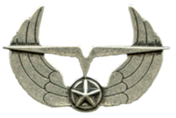 Italian Air Assault Badge